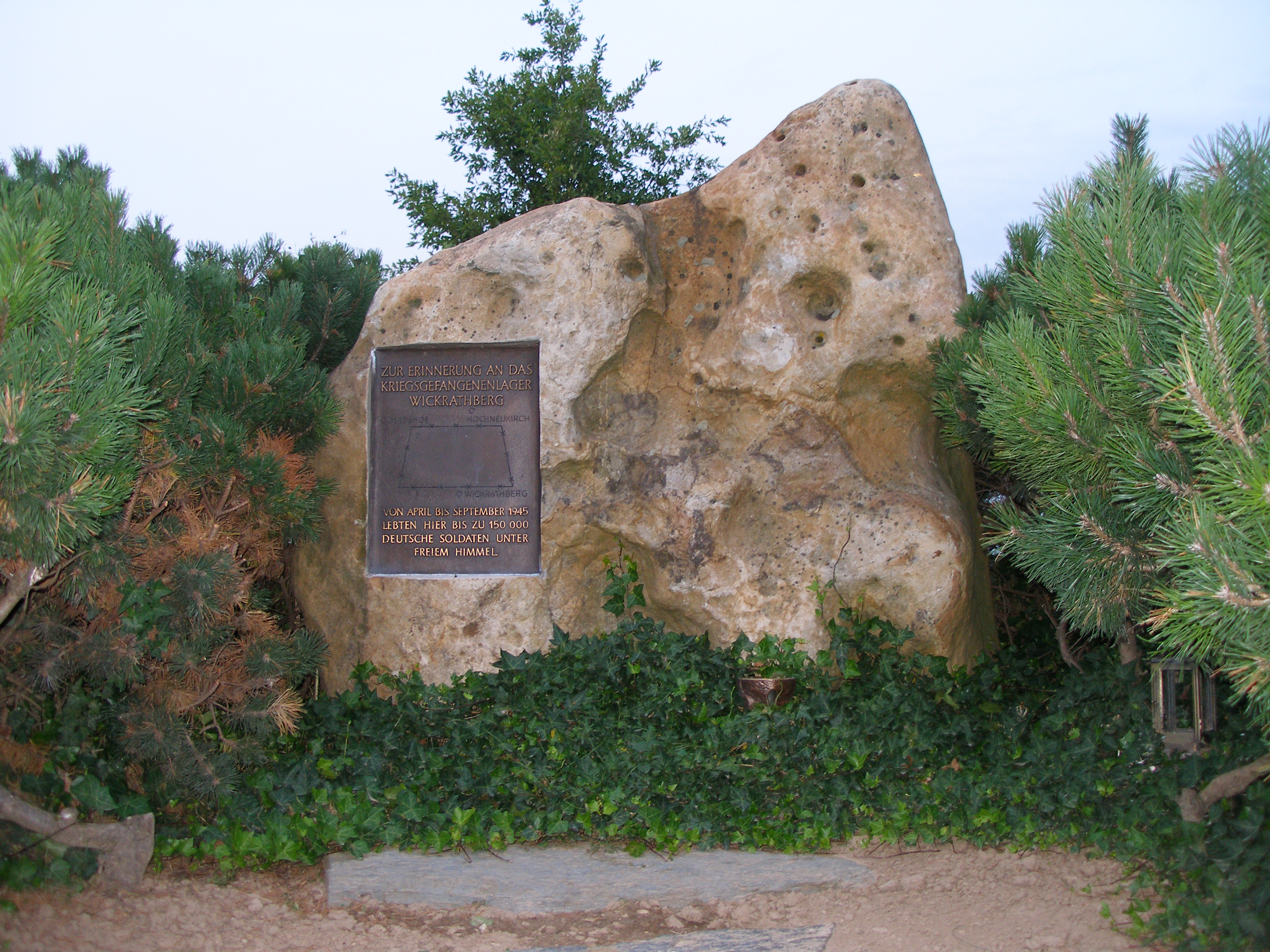 POW WWII Wickrathberg, Germany